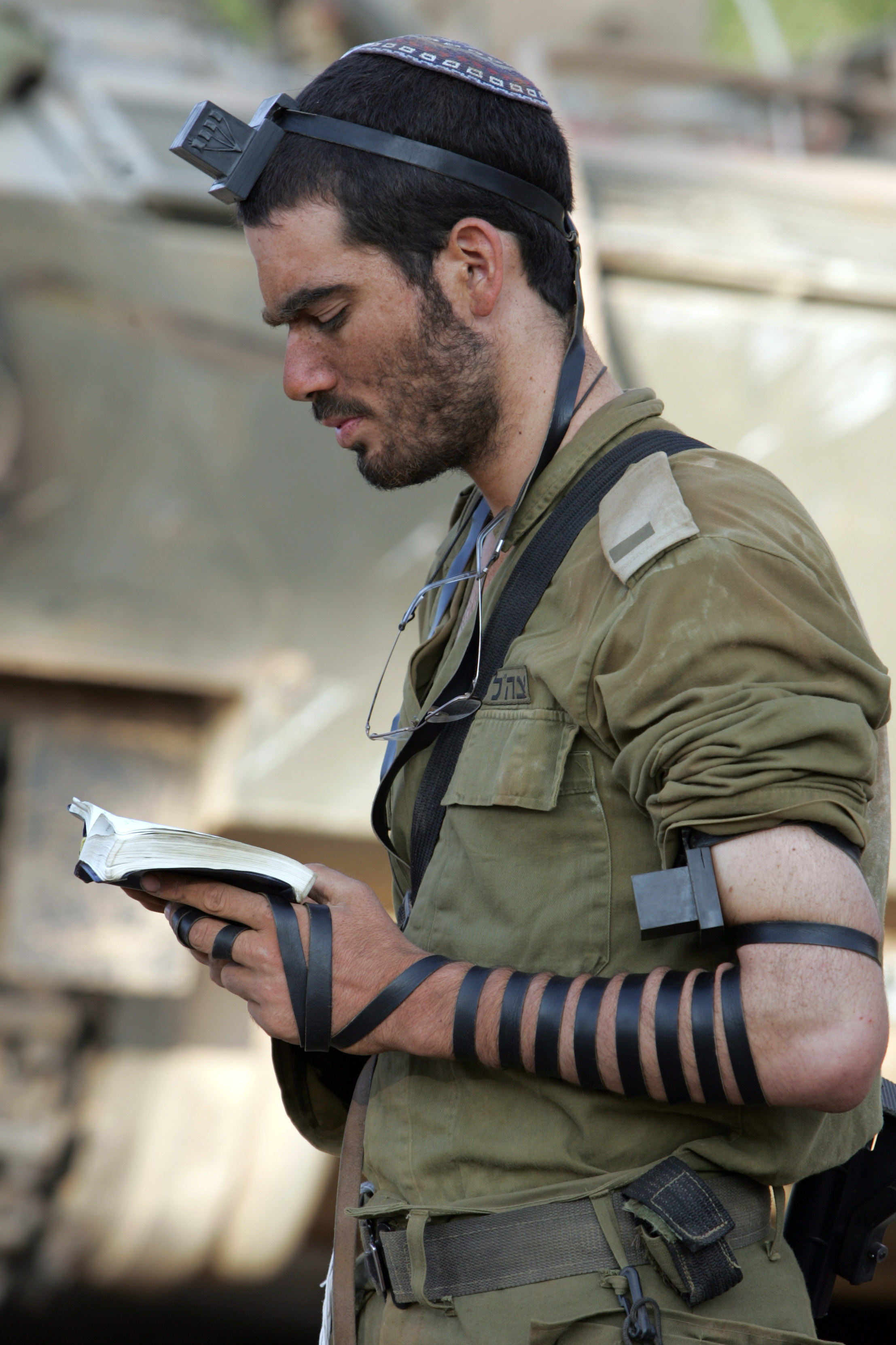 IDF soldier prays with tefillin in the 2006 Lebanon War after the Battle of Bint Jbeil, photographed by Yoav Lemmer. The officer is Lieutenant Asael Lubotzky from the esteemed Golani Infantry Brigade. He was seriously wounded in the war. Dr. Lubotzky's story was published in the book From the Wilderness and Lebanon by Yedioth Ahronoth recounting his personal experiences from the Second Lebanon War. The picture appears on the front cover of the book in Hebrew and on the translation to English - From the Wilderness and Lebanon by Koren Publishers Jerusalem. The photograph has become an inspiration for artists, and artworks (such as Brothers in Arms) and portraits[1] of the praying soldier were drawn.